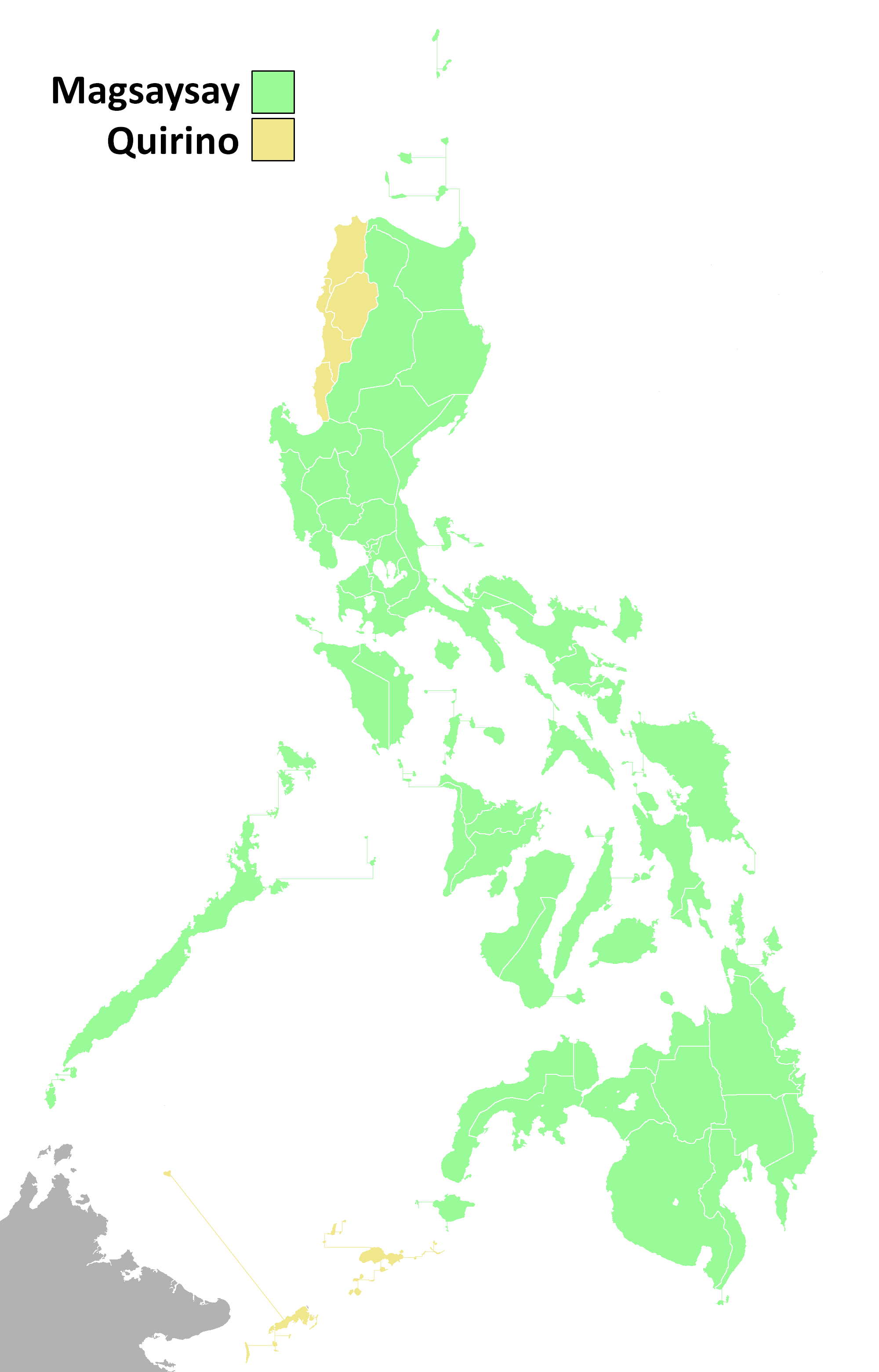 Results of the Philippine presidential election: shades refer to which candidate won a plurality in each province.